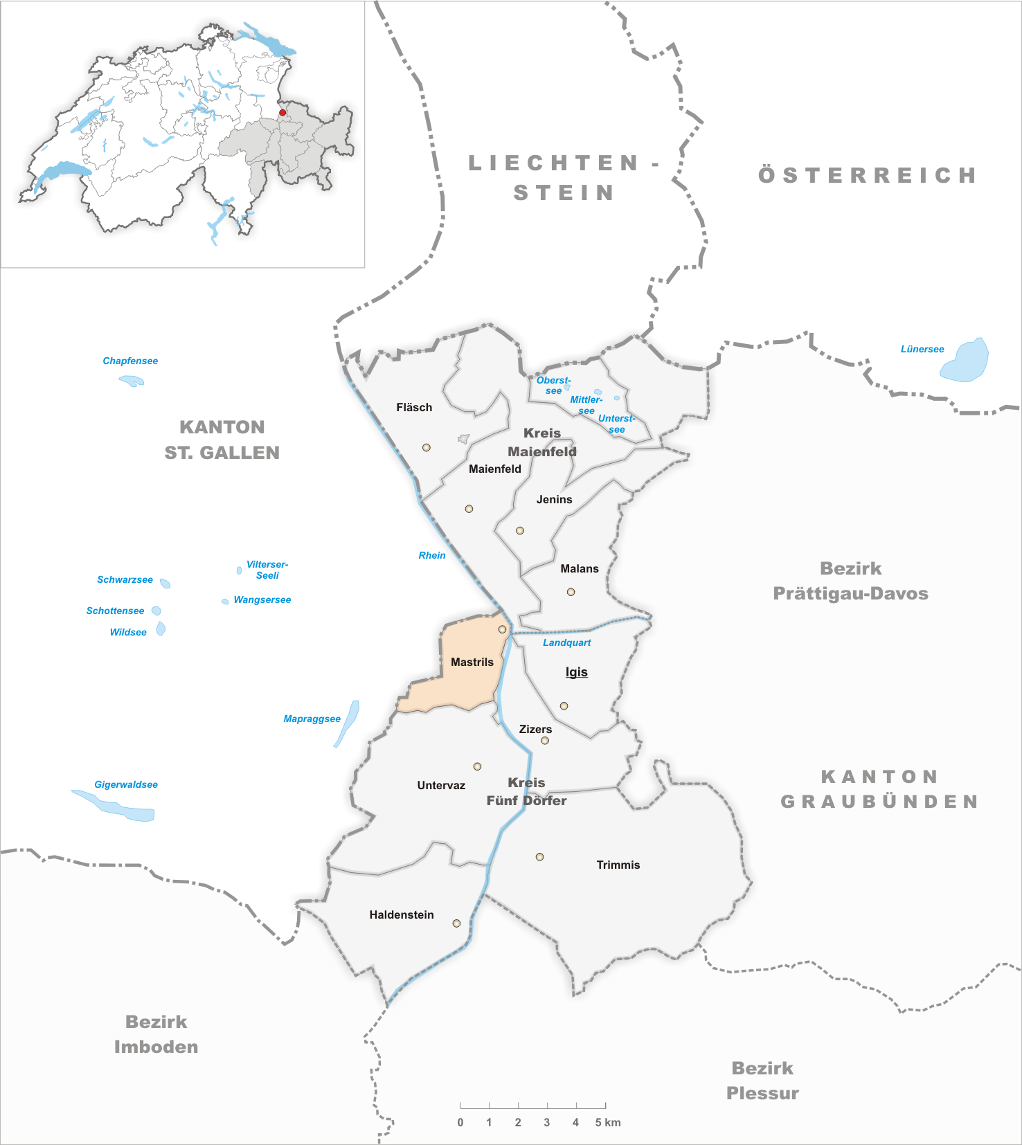 Municipality Mastrils